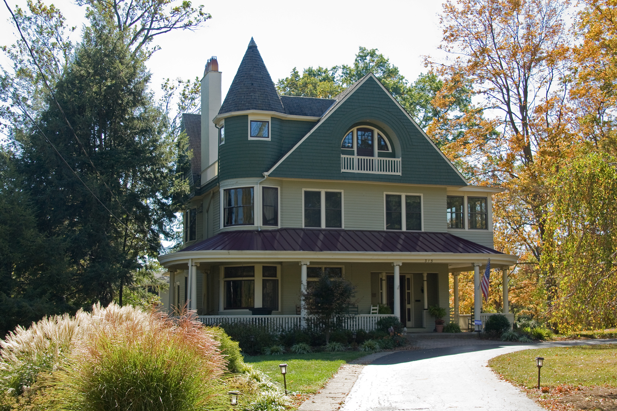 Louis Sawyer house in Wyoming, OH. Photo by Greg Hume.